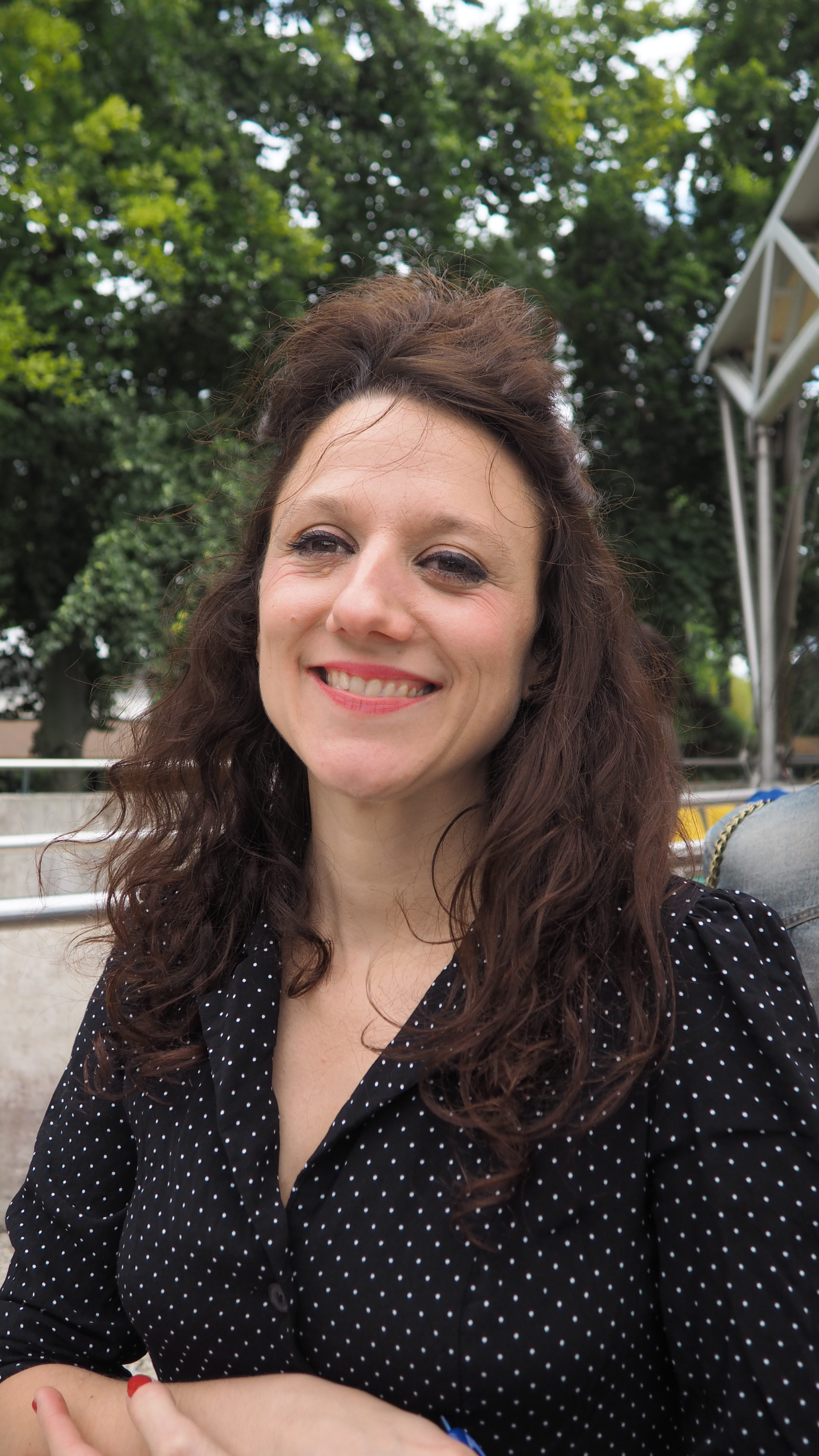 Artist Leila Martial during her 2019-07-14 show at Paris Jazz Festival, Parc Floral